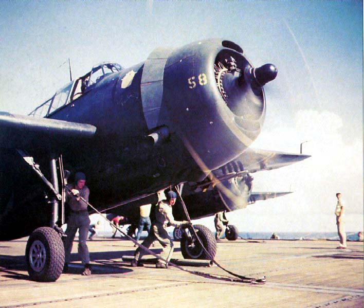 A U.S. Navy Grumman TBM Avenger is launched from the catapult of an aircraft carrier, probalby an escort carrier.